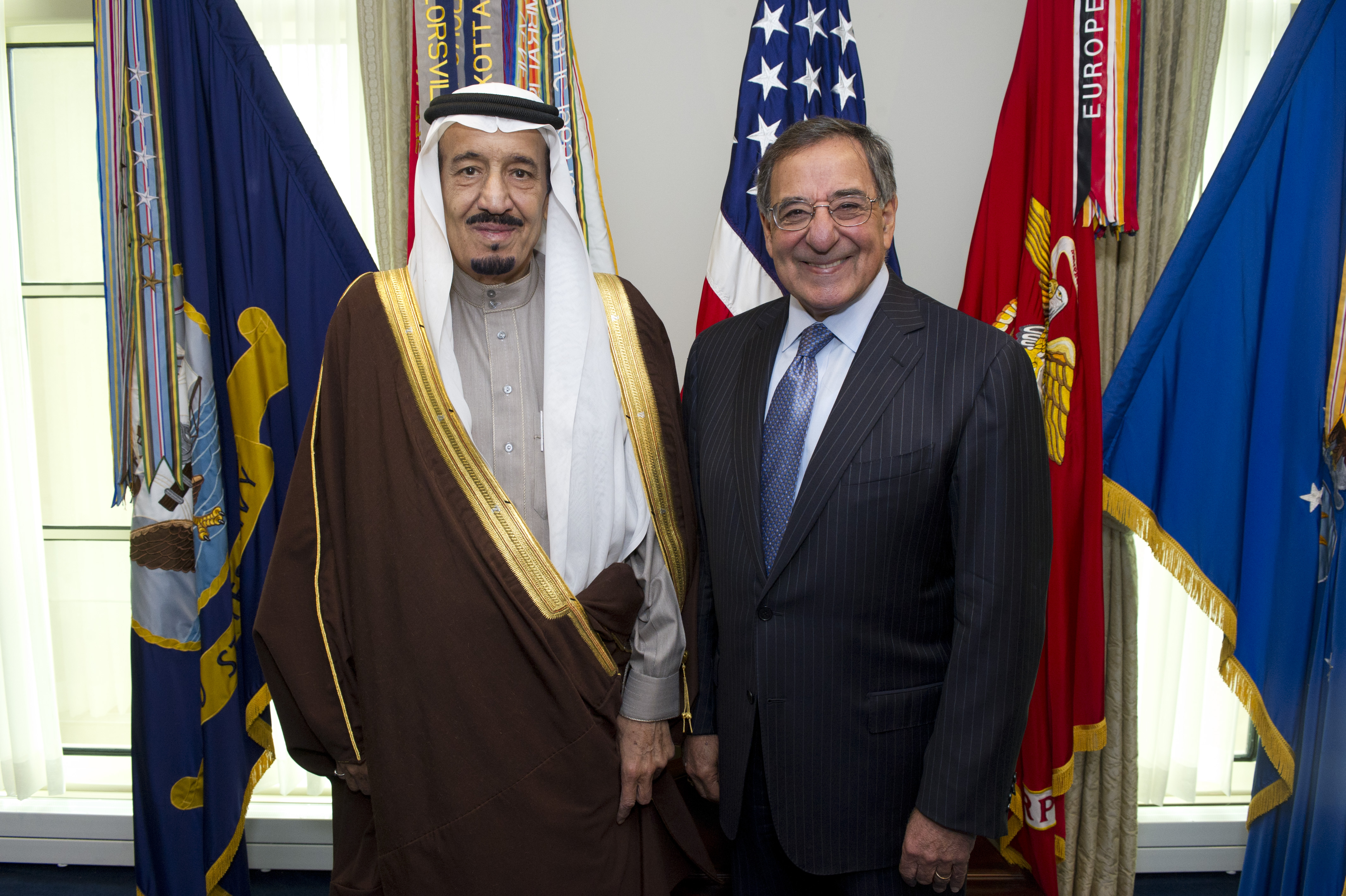 Secretary of Defense Leon E. Panetta poses for an official photograph with Saudi Arabia's Minister of Defense Prince Salman bin Abd al-Aziz Al Saud at the Pentagon on April 11, 2012 in Washington D.C.(DoD photo by Erin A. Kirk-Cuomo)(Released)